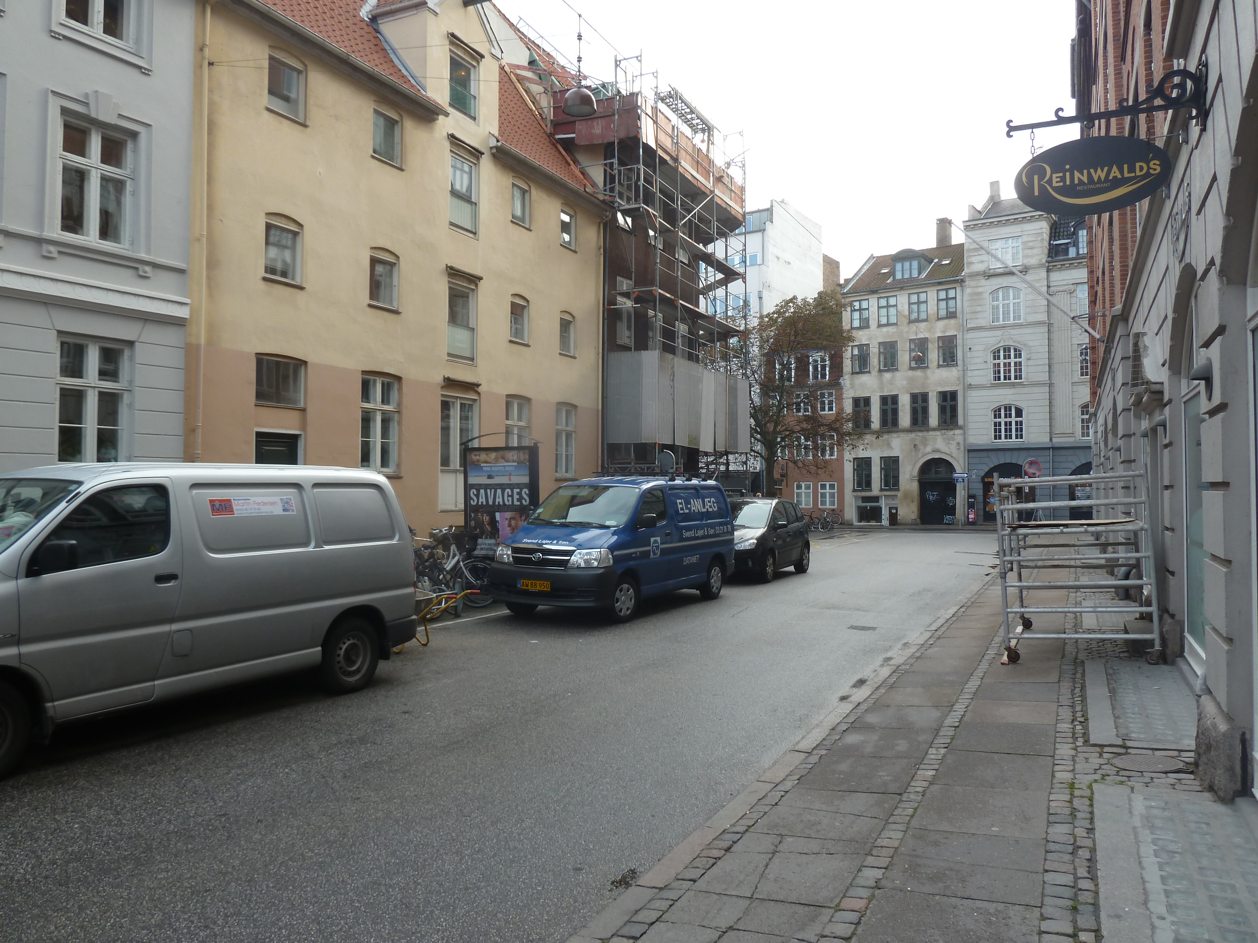 The street Gåsegade in Indre By in Copenhagen.